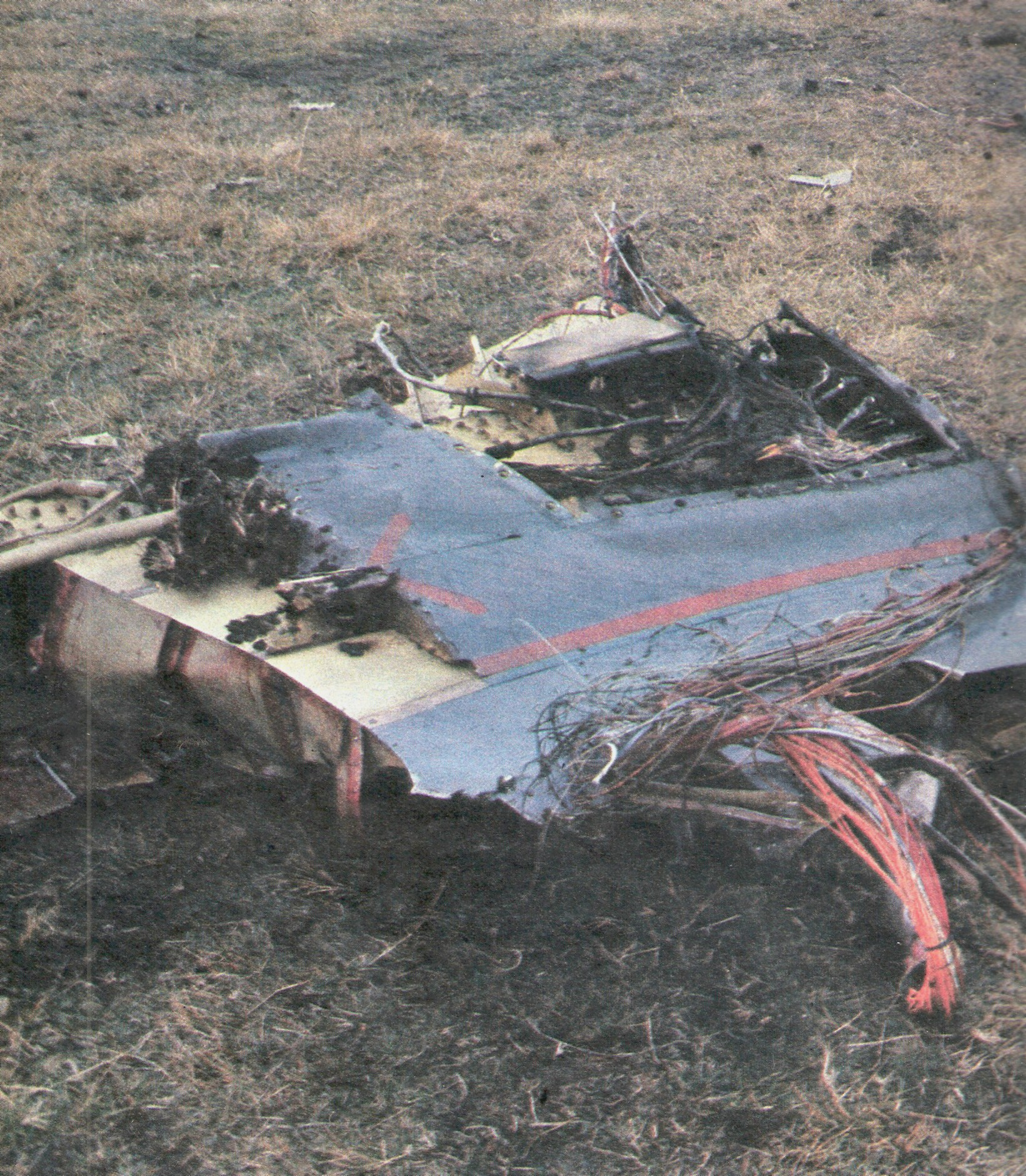 Remains of Harrier XZ450, shot down over Goose Green by 35 mm antiaircraft fire.